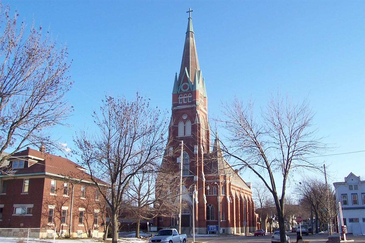 Copyright © 2006 Sulfur Christ Evangelical Lutheran Church is located in the historic Walker's Point district of Milwaukee, Wisconsin.